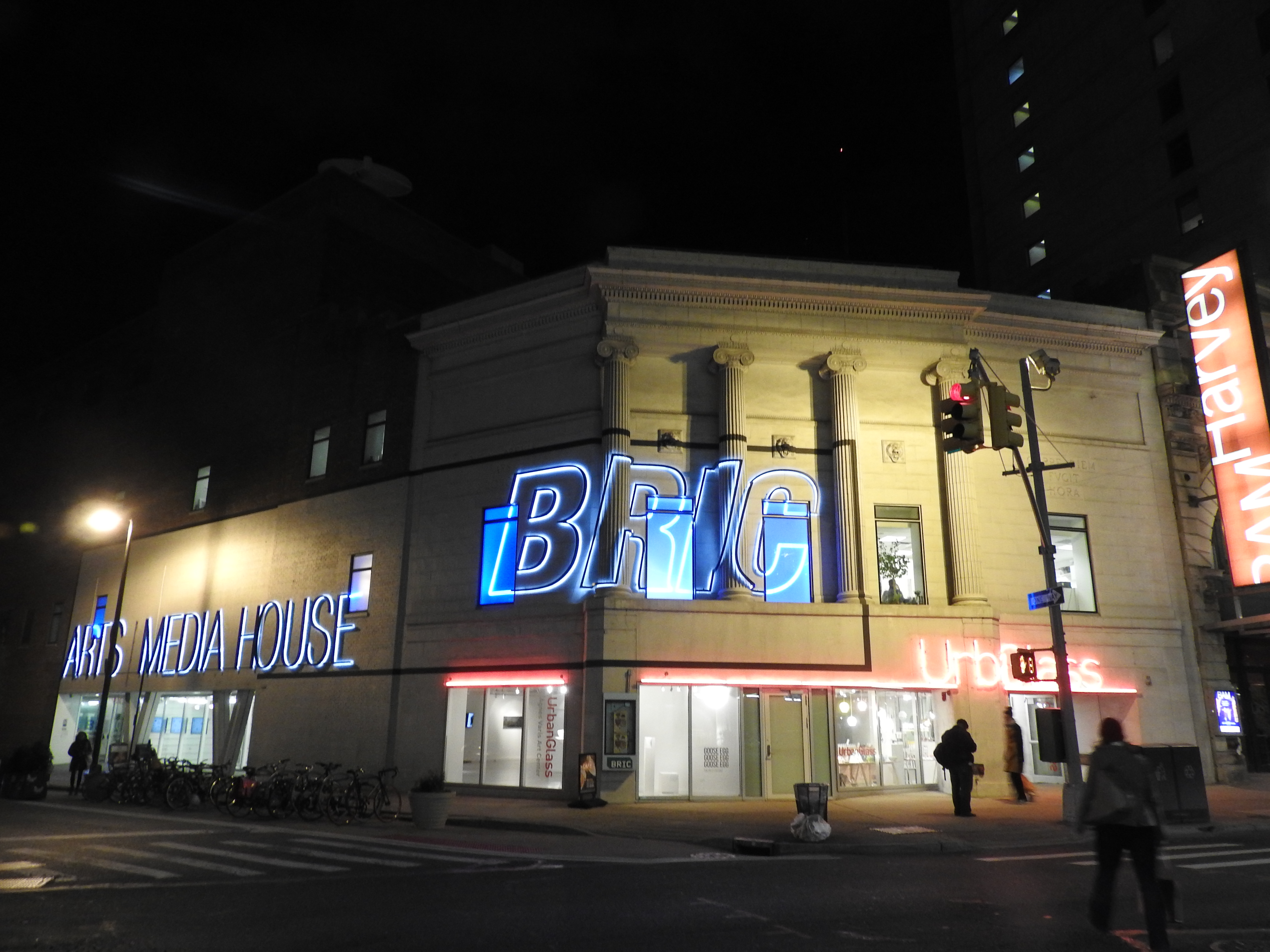 Looking north at arts center at night.